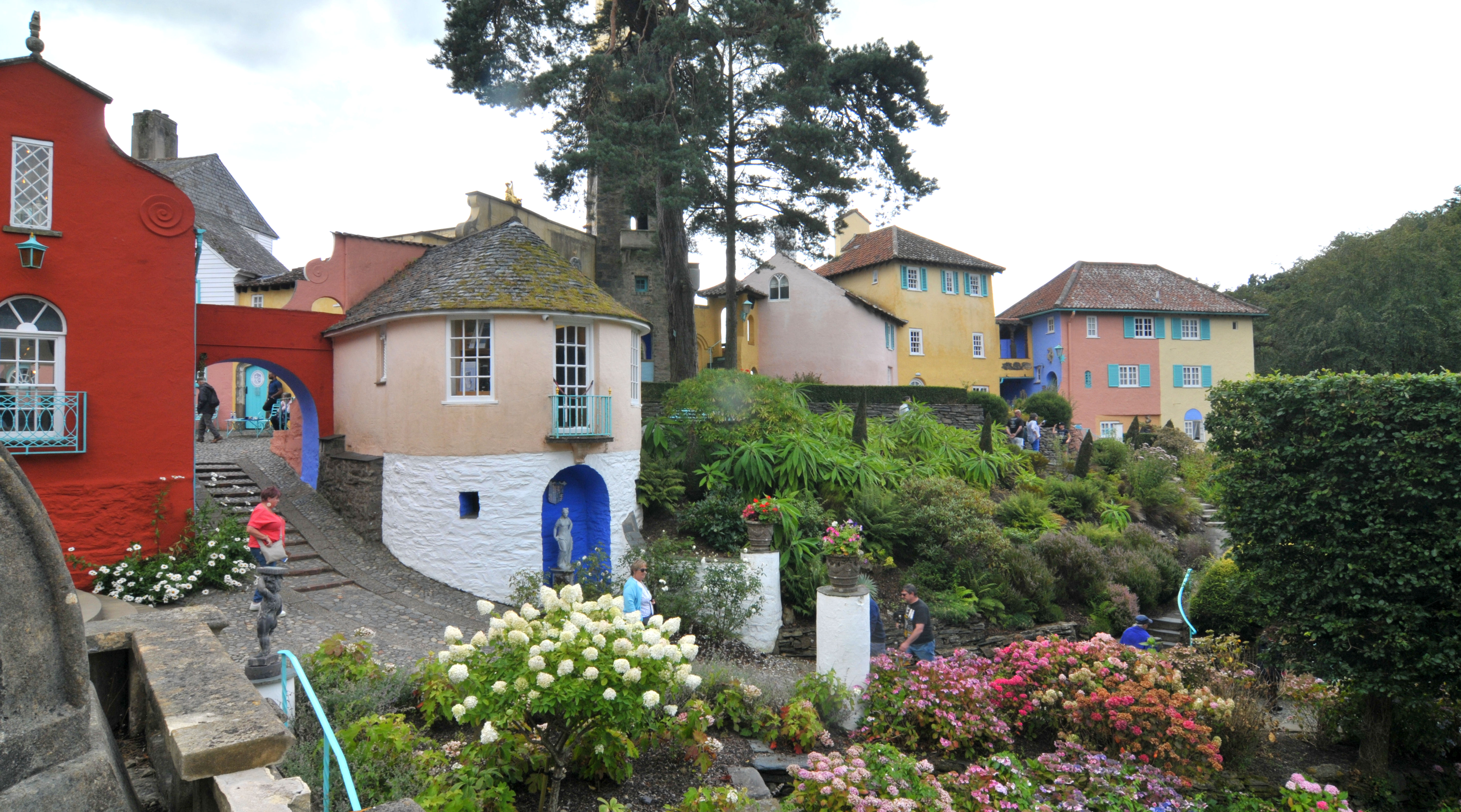 This hotel and tourist attraction in north Wales was catapulted into fame by the 1960's cult TV series "The prisoner" starring Patrick McGoohan. From Wikipedia: The village of Portmeirion has been a source of inspiration for writers and television producers. Noël Coward wrote Blithe Spirit while staying there. George Bernard Shaw and H. G. Wells were also early visitors. In 1956 the village was visited by architect Frank Lloyd Wright, and other famous visitors have included Gregory Peck, Ingrid Bergman and Paul McCartney. The village has many connections to the Beatles too. Their manager, Brian Epstein was a frequent visitor and George Harrison spent his 50th birthday in the village in 1993. It was while Harrison was in Portmeirion that he filmed interviews for The Beatles Anthology documentary.